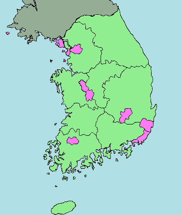 area map of special city and metropolitan cities